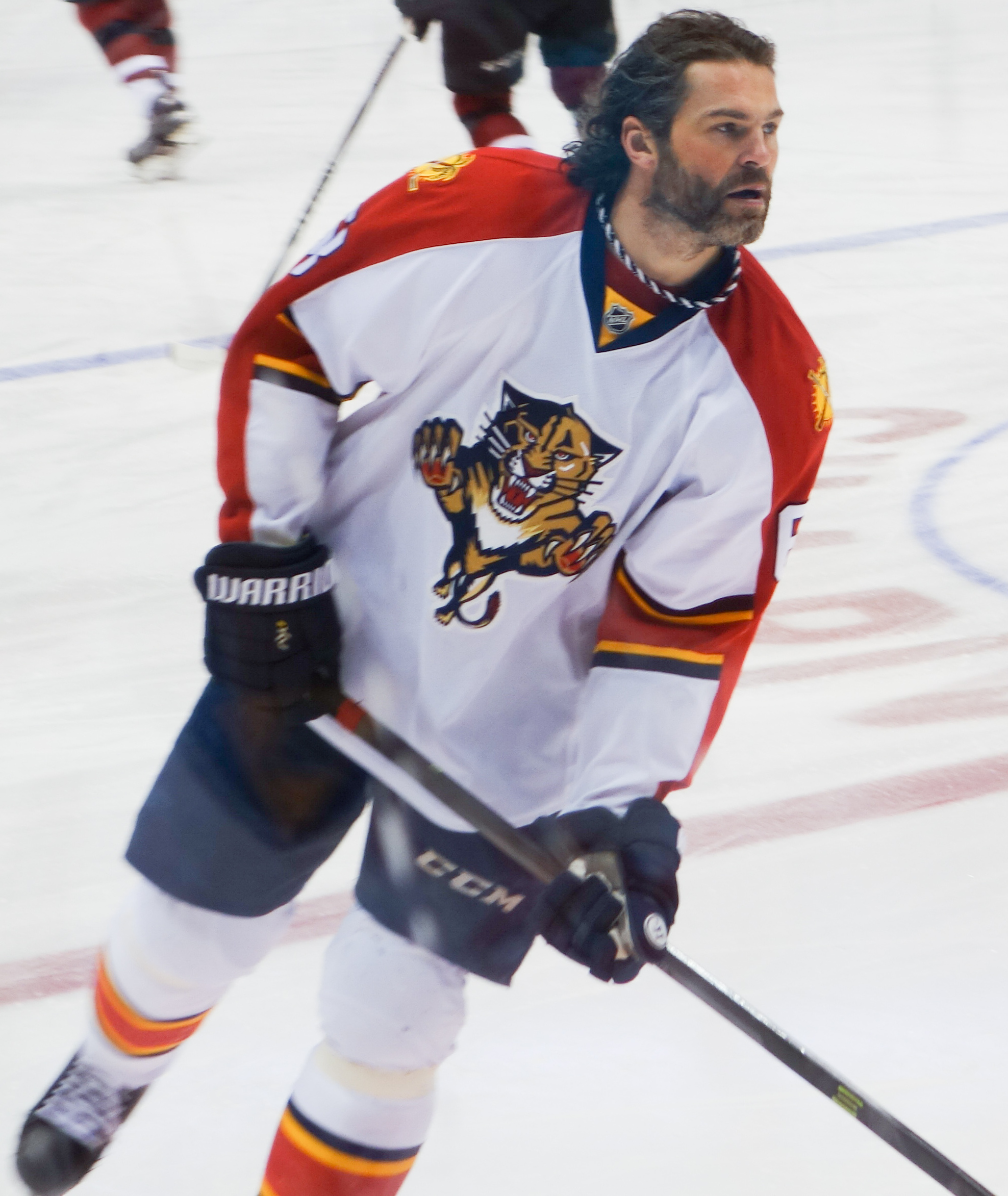 Jagr with the Panthers in 2016